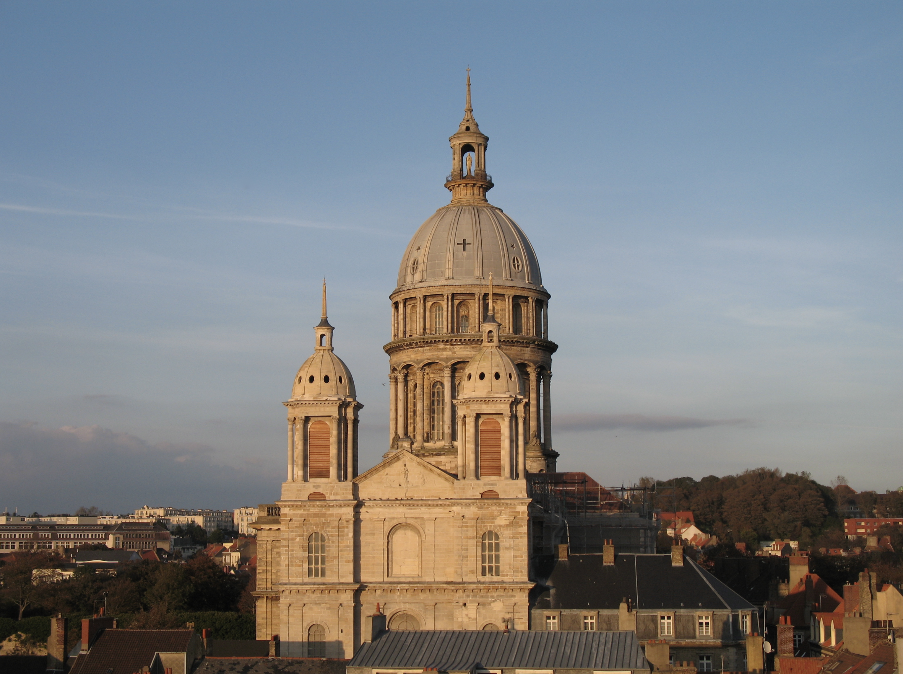 Boulogne-sur-Mer (département du Pas-de-Calais, France): Notre-Dame Basilica